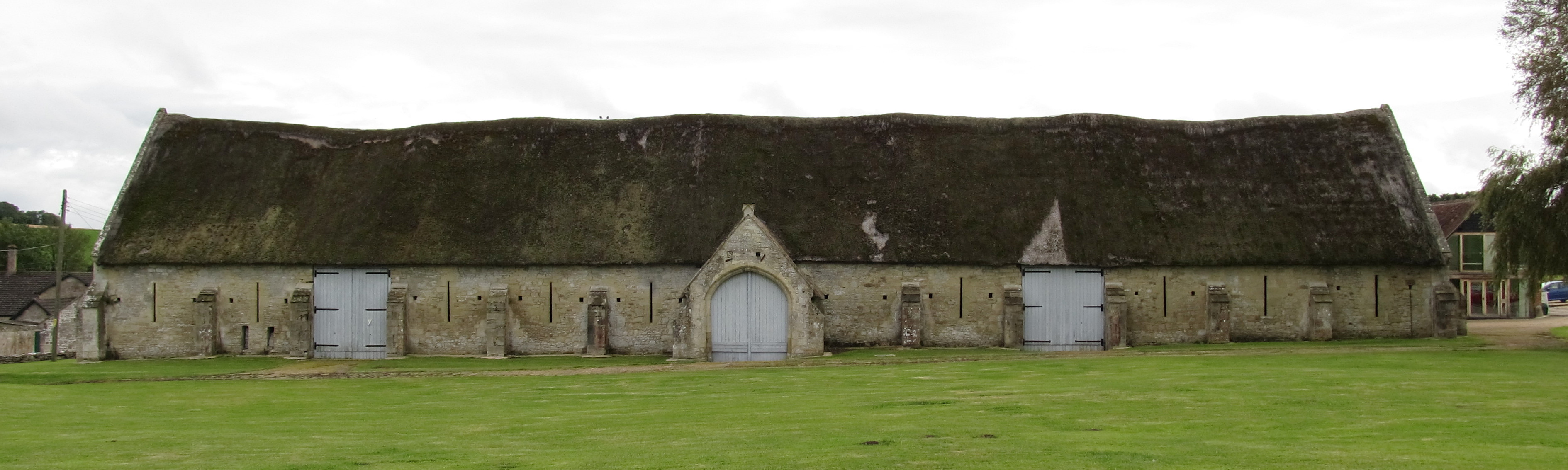 Tithe Barn at Place Farm, Tisbury, Wiltshire, England.